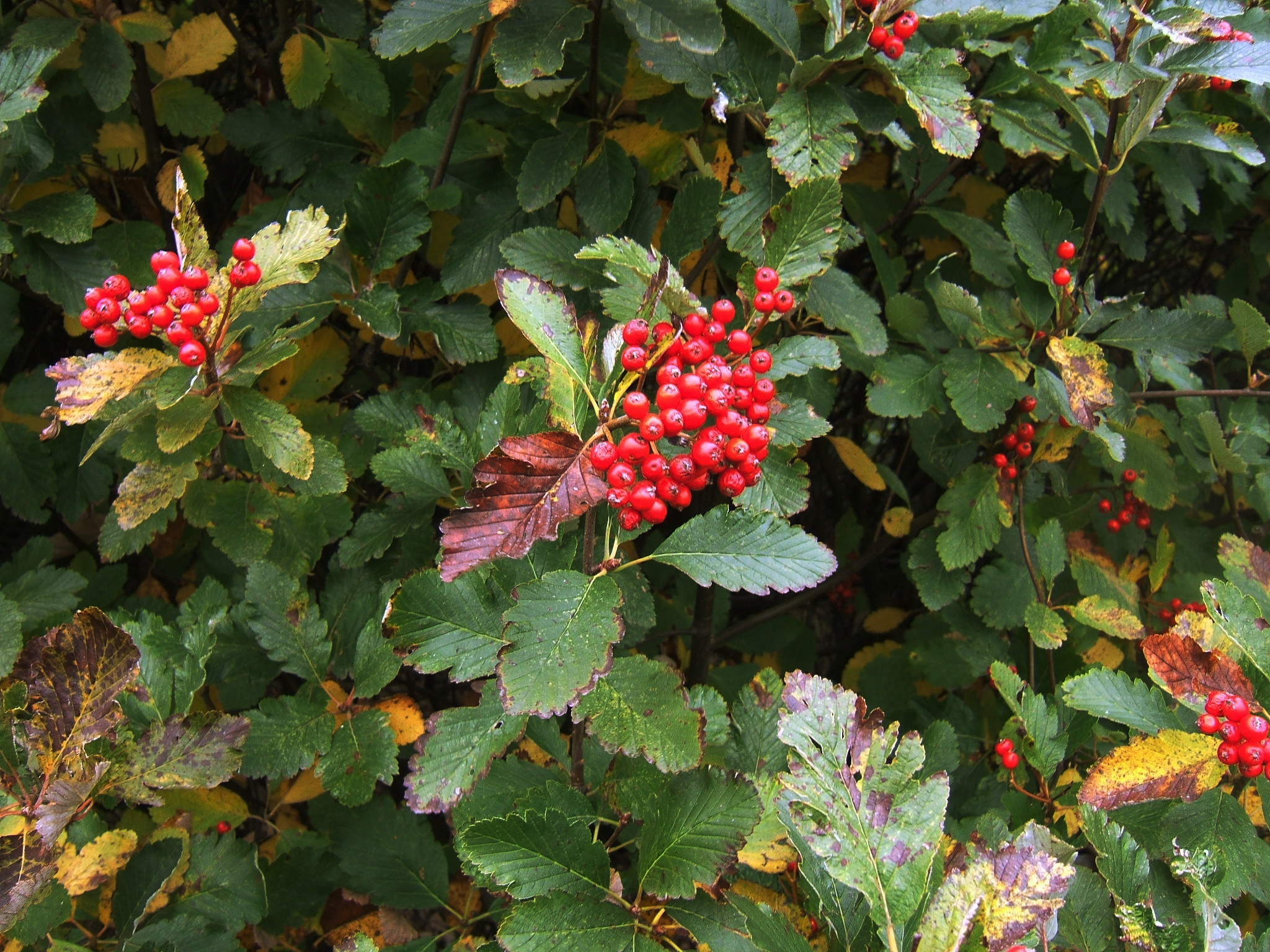 Sorbus mougeotii with fruit; cultivated, Newbiggin, Northumberland, UK